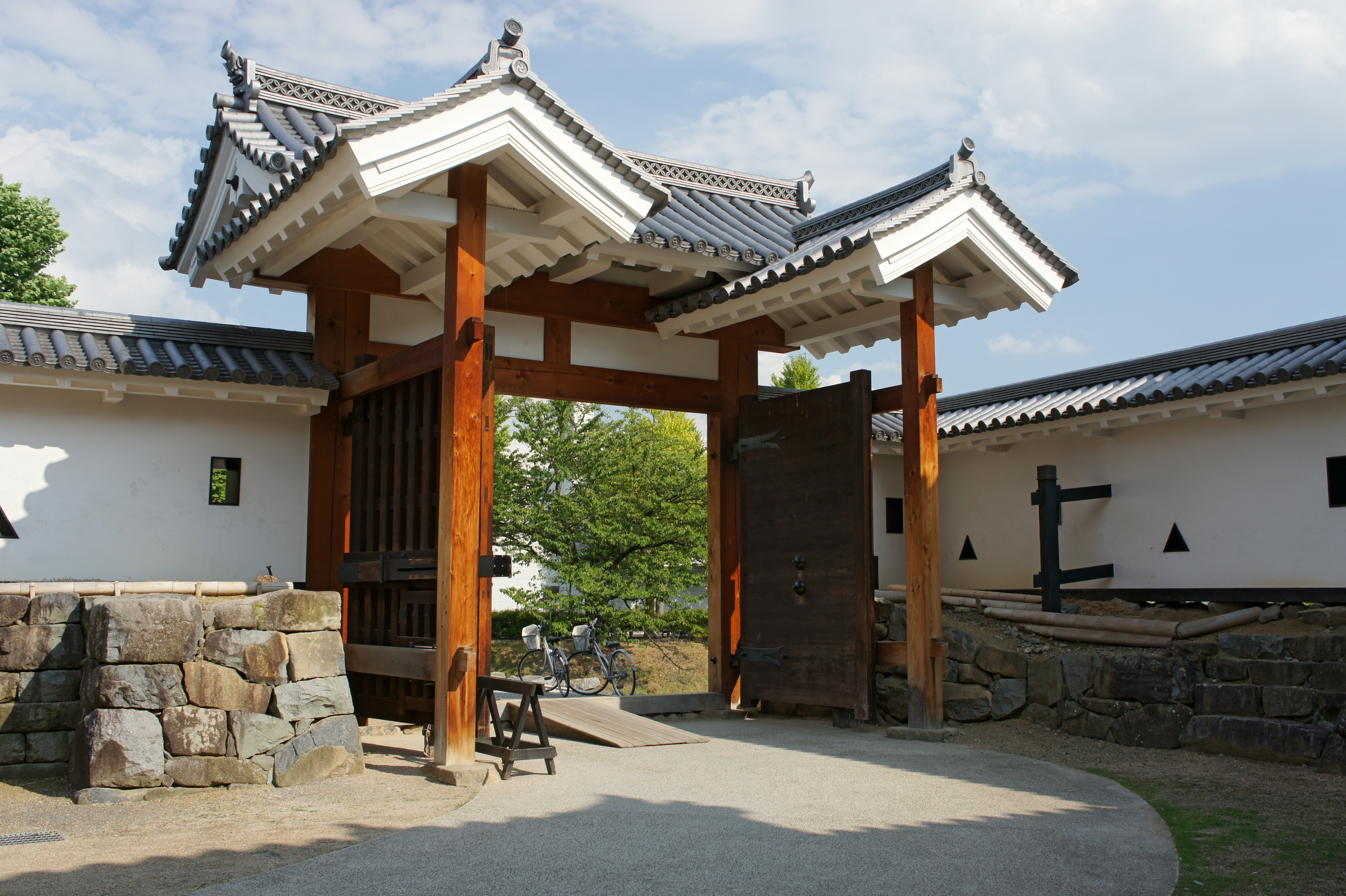 Matsumoto Castle in Matsumoto, Nagano prefecture, Japan.